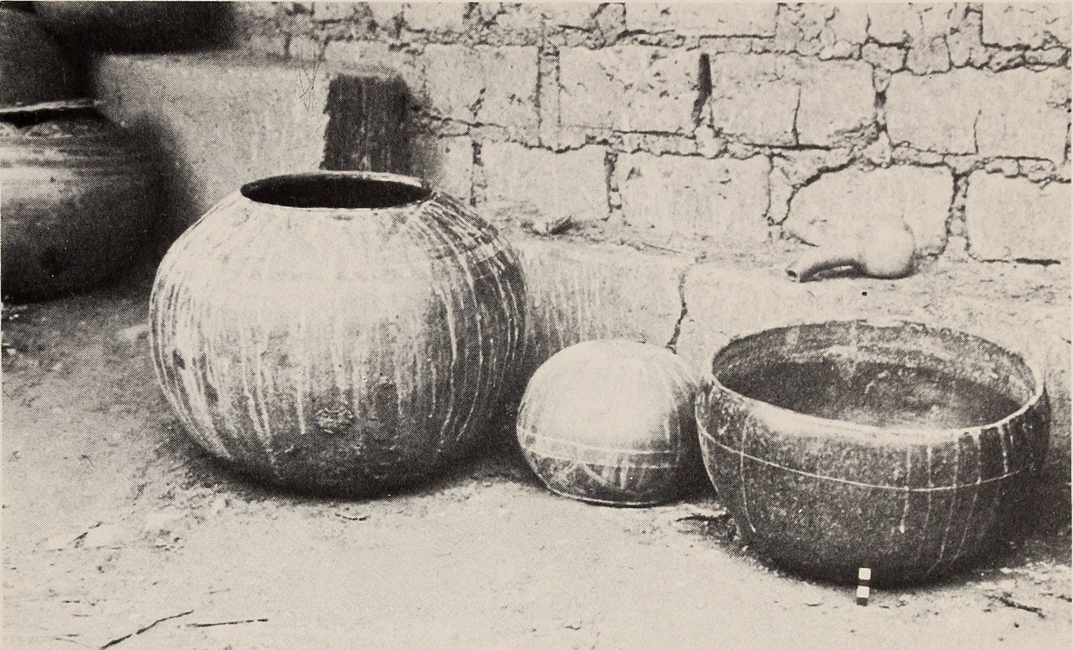 Title: Annals of the South African Museum = Annale van die Suid-Afrikaanse Museum Year: 1898 (1890s) Authors: South African Museum Subjects: Natural history Publisher: Cape Town : The Museum Text Appearing Before Image: LOBEDU POTTERY 313 Text Appearing After Image: Fig. 25. Pots in use; left to right modzheha, nklw, thukhwana, lebetfa; Modjadji's village, 1975. 'Lesabelo' (Fig. 26) A wide-mouthed bowl used as a wash-basin. It is always decorated with a broad, incised band of hatching round the rim. White chalk is rubbed into the incisions, and the bowl is burnished with graphite inside and outside. It was customary for a wife to bring her husband a lesabelo of warm water for washing in the morning. In the 1930s Krige recorded that these bowls were rare and had been replaced almost entirely by enamel basins. For ritual purposes, however, the traditional bowl is said still to be used, for example, a person who is possessed by spirits must use a lesabelo for washing. In 1976 a potter at Modjadji's village made an example on request as none had been seen in use. It differed in shape from the 1930s specimens in that it was not as large and the incised decoration was not coloured with white chalk.